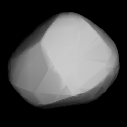 3D convex shape model of 1095 Tulipa, computed using light curve inversion techniques. J. Hanuš, J. Ďurech, M. Brož, B. D. Warner (June 2011). "A study of asteroid pole-latitude distribution based on an extended set of shape models derived by the lightcurve inversion method". Astronomy and Astrophysics 530: A134. ISSN 0004-6361. arXiv